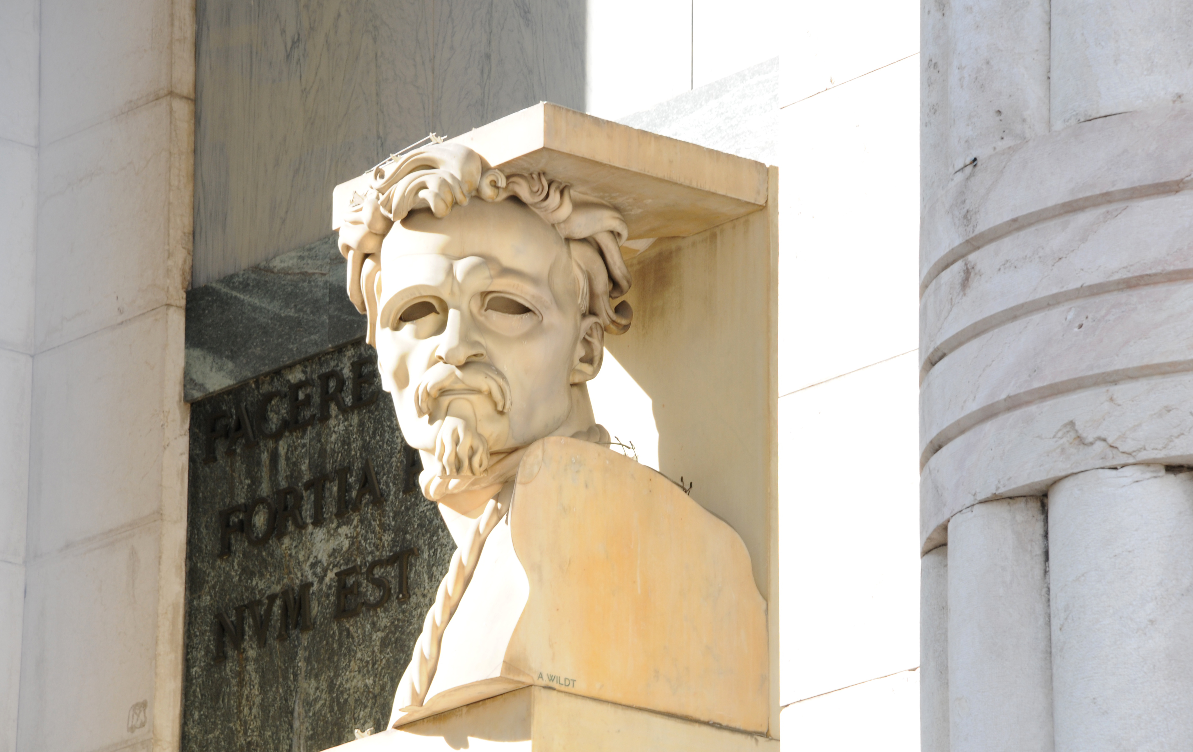 Cesare Battisti by Adolfo Wildt (Milano, 1 marzo 1868 – Milano, 12 maggio 1931) in the Monumento della Vittoria (Bolzano Victory Monument) in Bolzano Italy